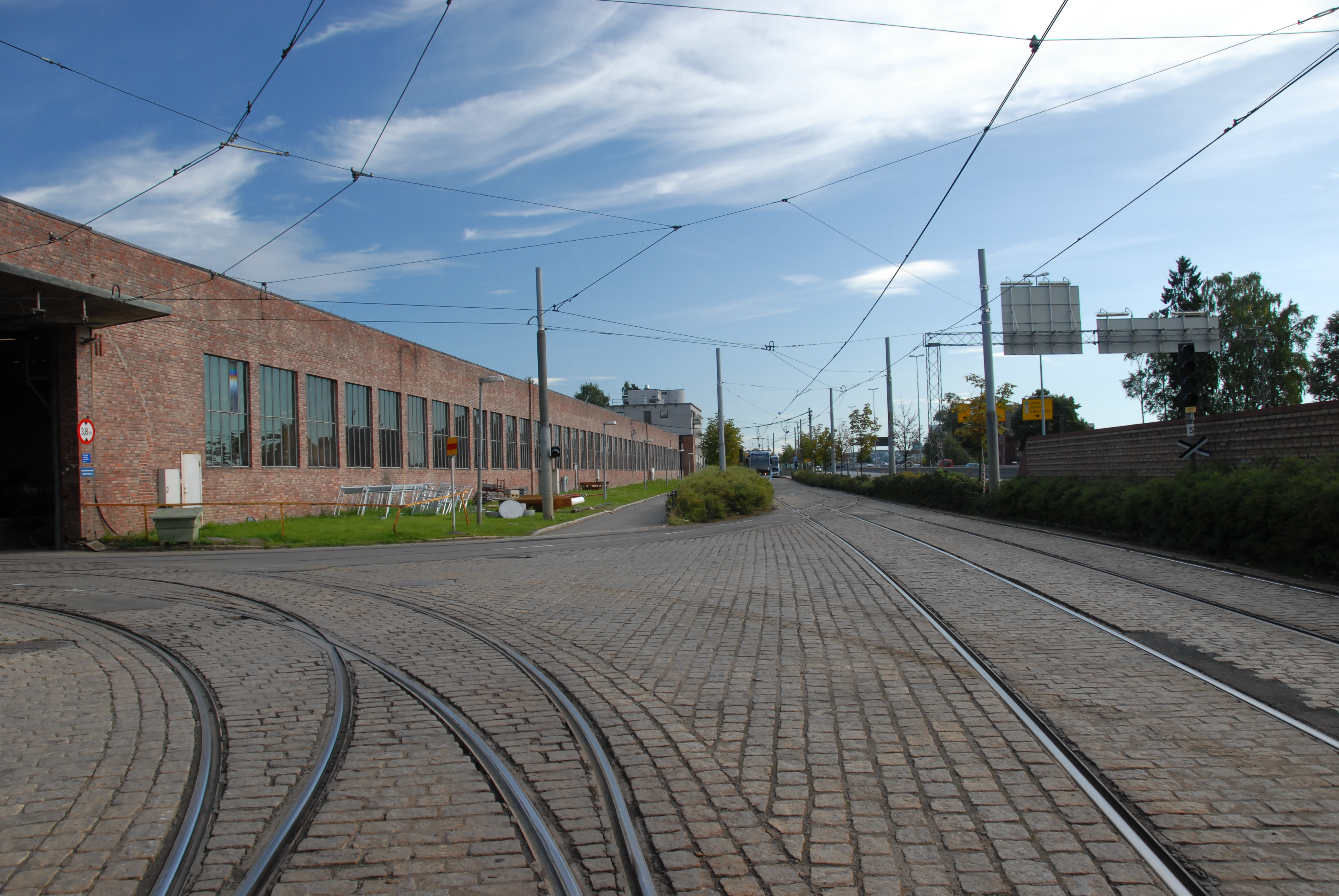 Stop at Grefsen stasjon